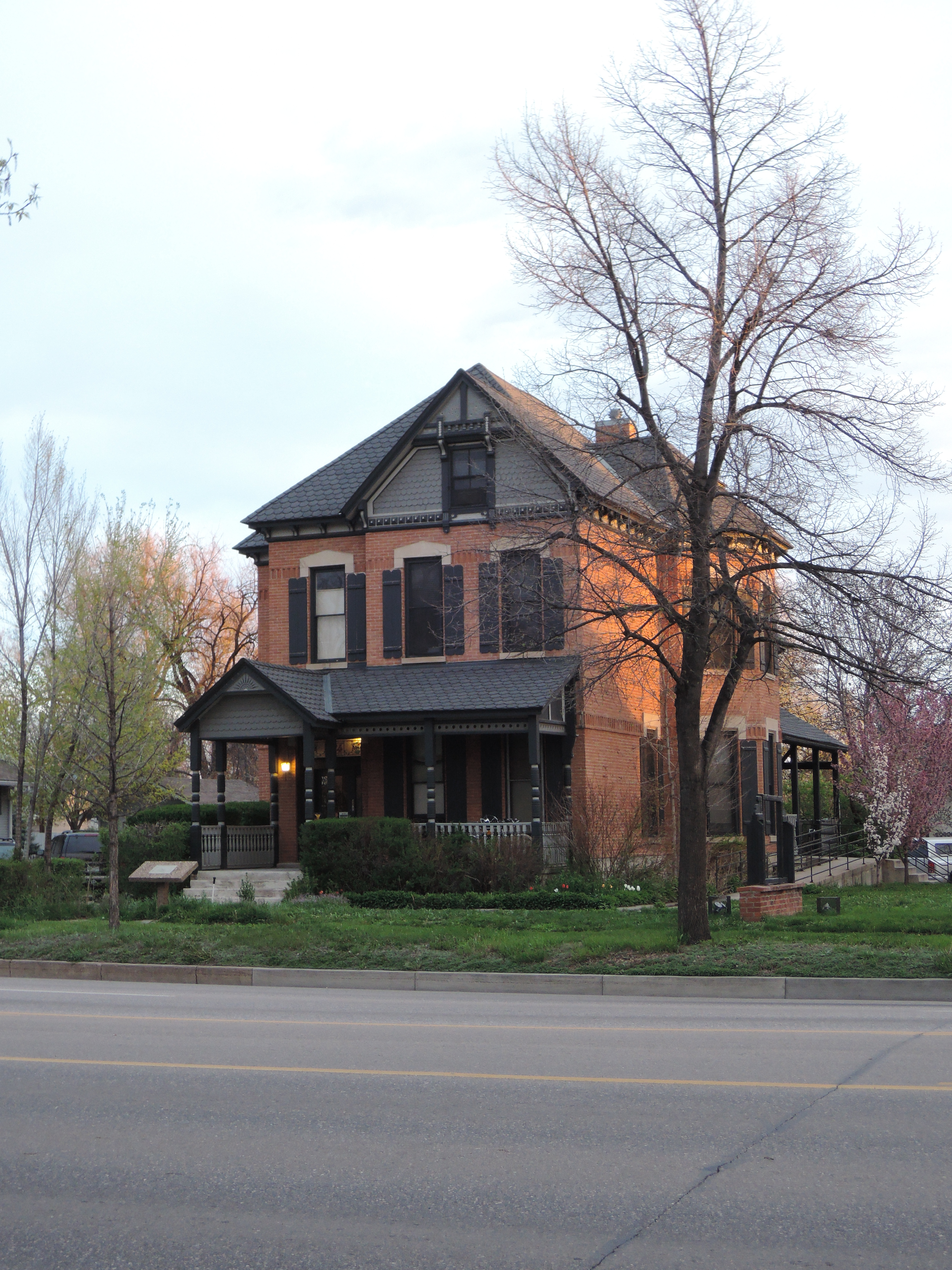 James B. Arthur built his stately Queen Anne Victorian in Fort Collins, CO in 1882. Built by Richard Burke with the architectural work done by Denver's Nichols and Canman, this mansion was one of the biggest private homes built at the time. The building was documented in the local paper by newsman, historian, and pioneer Ansel Watrous.